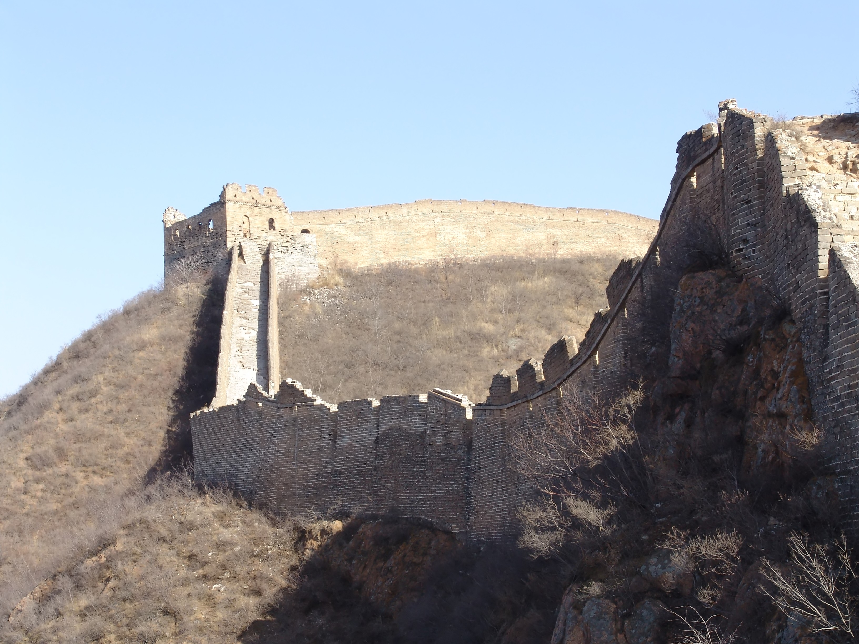 Unrestored Part of the Great Wall of China near Sematai.